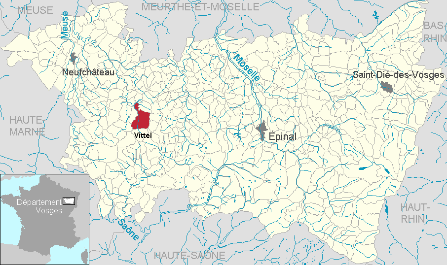 Vittel in the department of Vosges, Lorraine, France